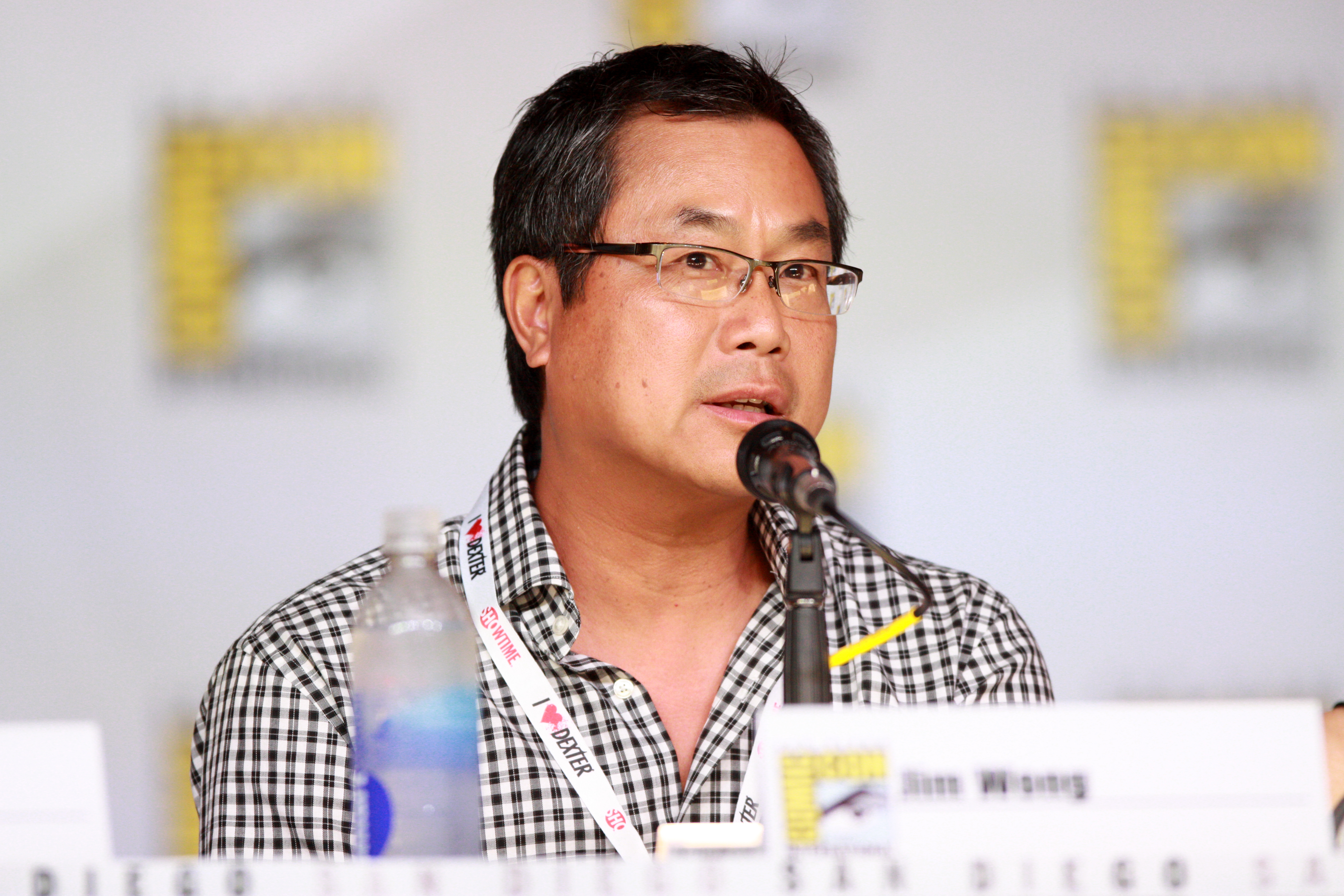 Jim Wong speaking at the 2013 San Diego Comic Con International, for "The X-Files" 20th Anniversary panel, at the San Diego Convention Center in San Diego, California.